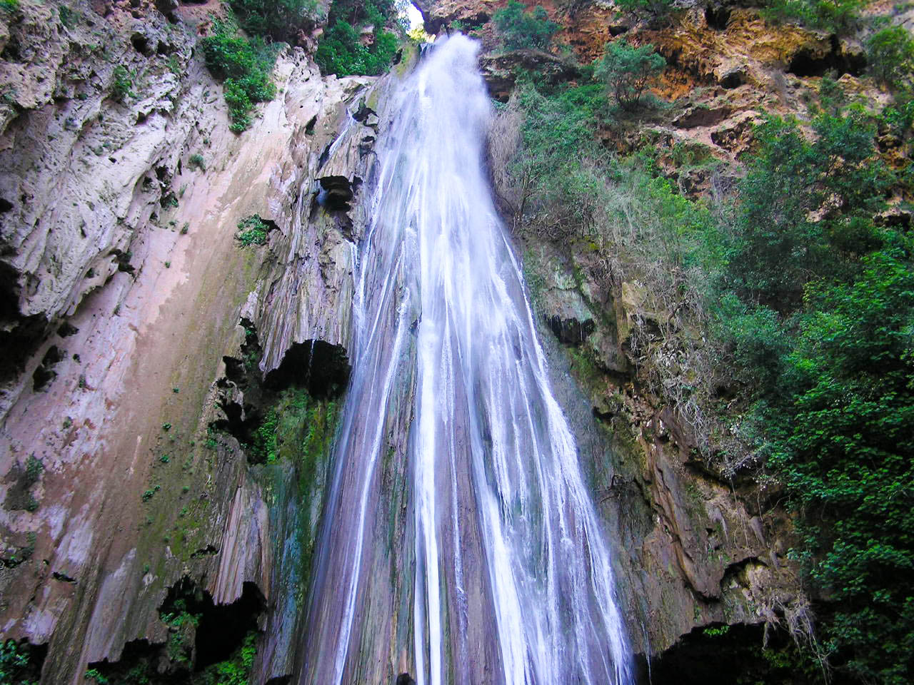 The big water falls of akchour - National park of Talassemtane